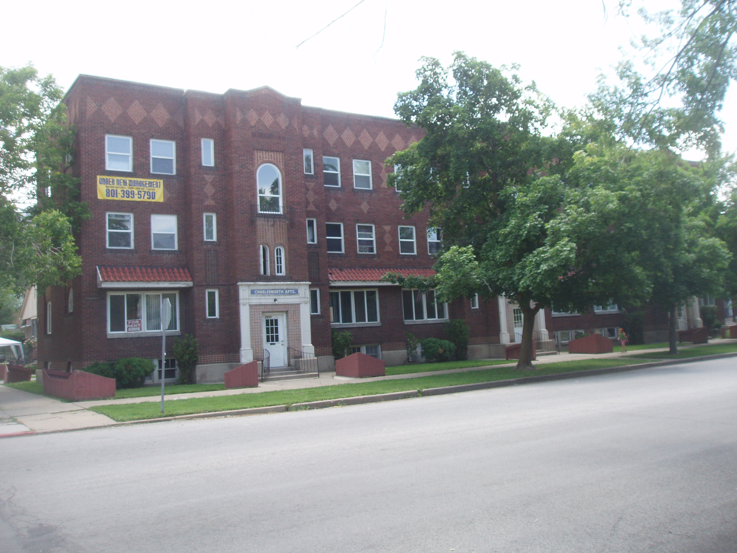 The Upton Apartments, a historic building in Ogden, Utah, United States.